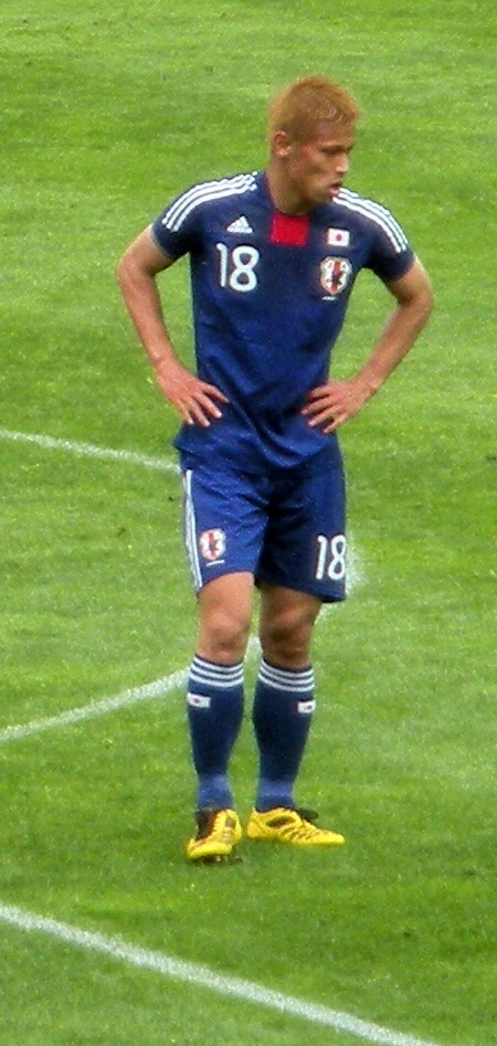 Keisuke Honda, friendly between Japan and England in Graz (Austria) on 30 May 2010